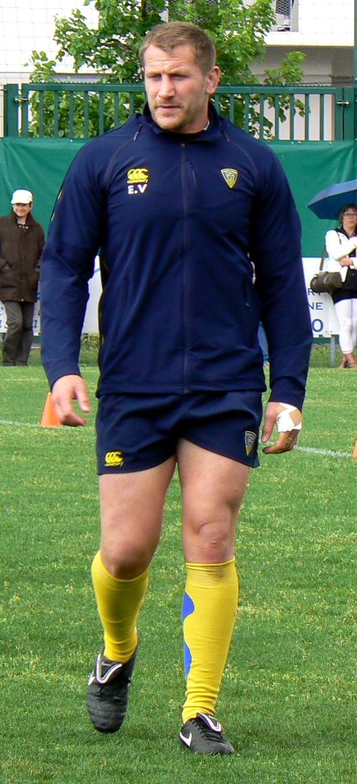 The french rugbyman Elvis Vermeulen with ASM Clermont Auvergne.